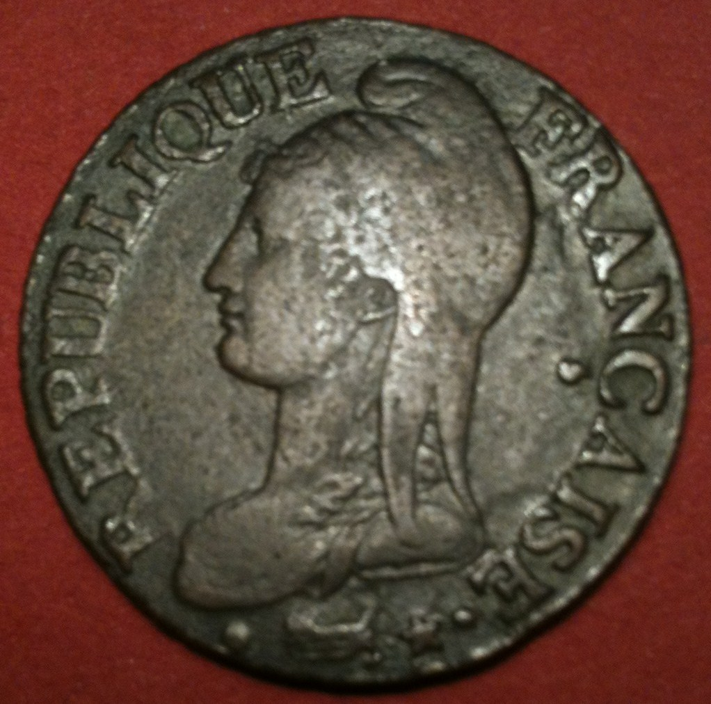 Cinq centimes an 7 (1798) France B Design Dupré